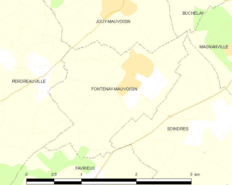 Map of French municipality Fontenay-Mauvoisin